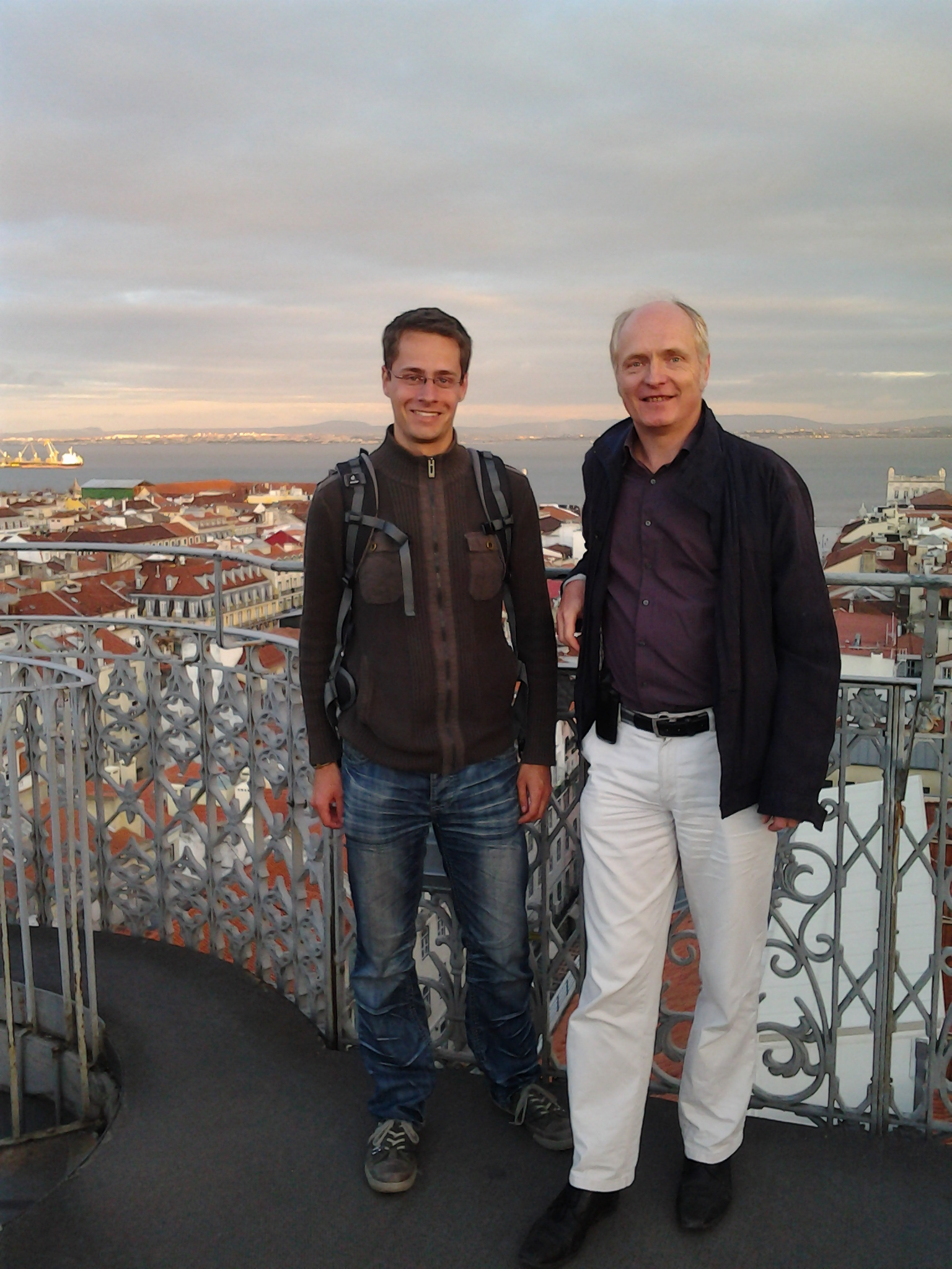 Professors Stefan Schuster and Christoph Kaleta in Lisbon in May 2012, at Old town of Lisbon, top platform of Santa Justa iron lift